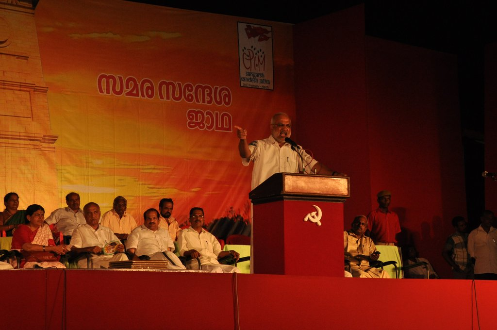 M.a. baby addressing sangarsh sandesh jatha at kollam